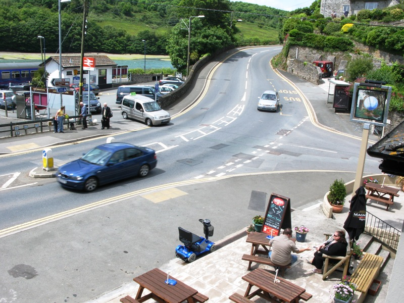 The railway station at Looe, Cornwall, United Kingdom seen from the Globe Inn. This inn is part of the Looe Valley Rail Ale Trail which encourages people to use the railway line to visit pubs and rewards them woth souvenier items if they collect evidence of their visits.